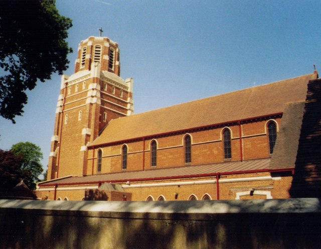 Corpus Christi, Boscombe Grade 2 listed building erected in 1895.